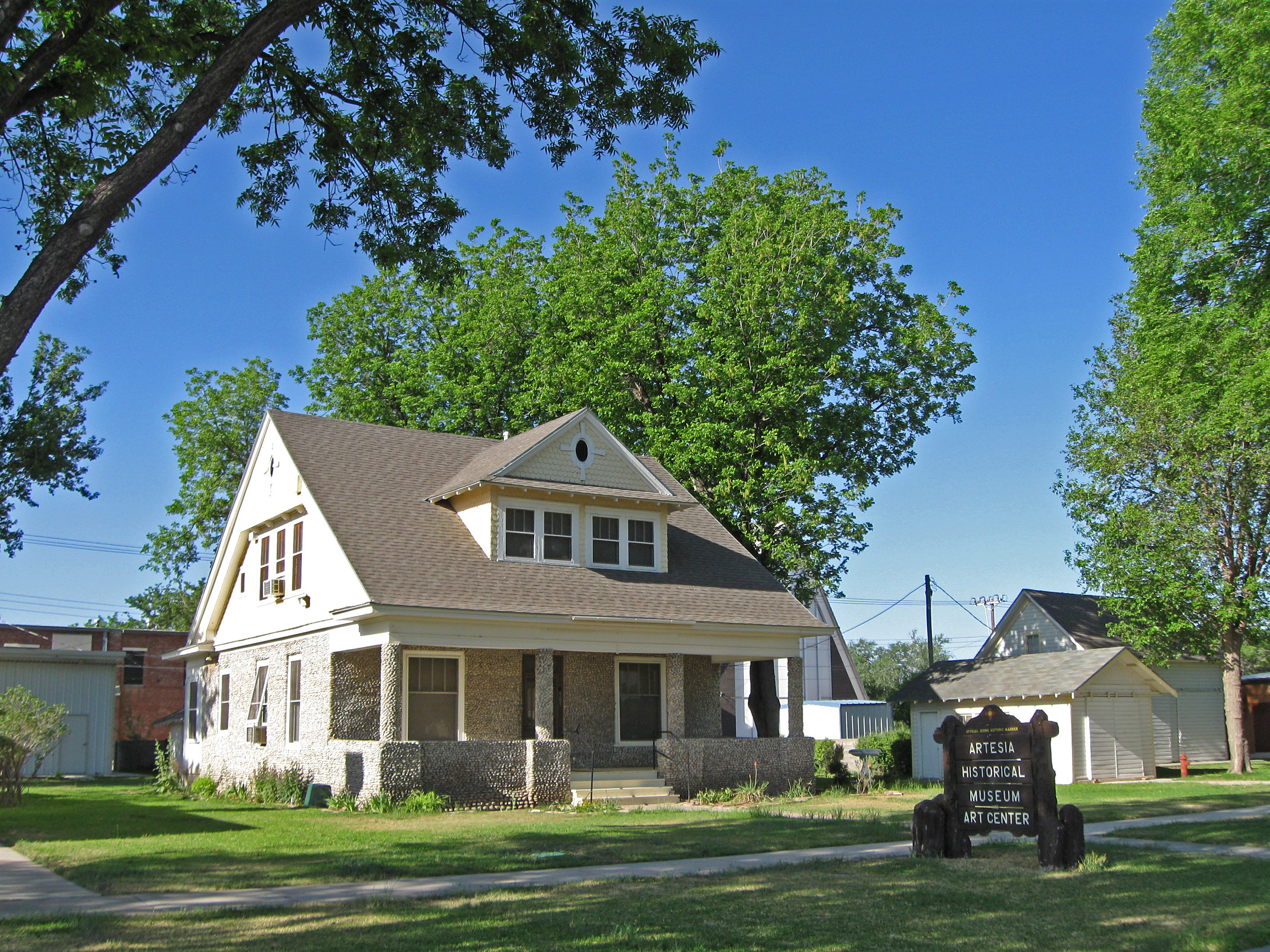 Artesia Historical Museum & Art Center, located at 505 West Richardson Avenue in Artesia, New Mexico. Also known as the Moore-Ward Cobblestone House, it is listed on the National Register of Historic Places.